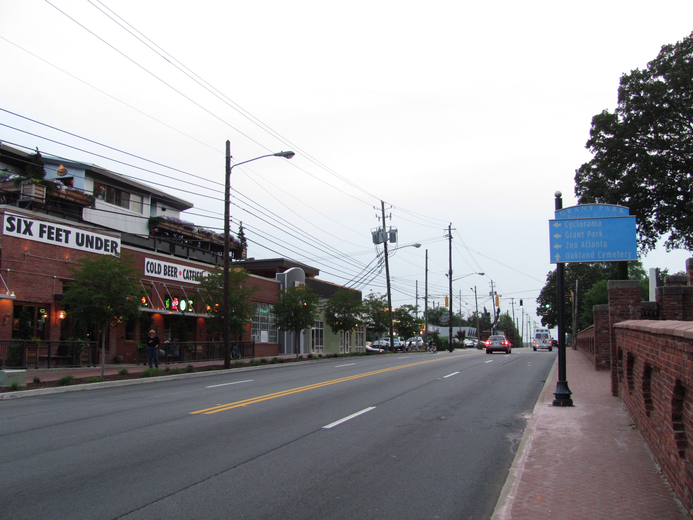 Memorial Drive at Six Feet Under, Atlanta Georgia